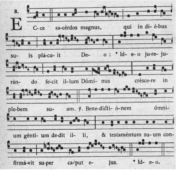 Gregorian chant for the festival of a confessor bishop